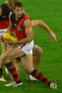 Jobe Watson, Australian rules footballer